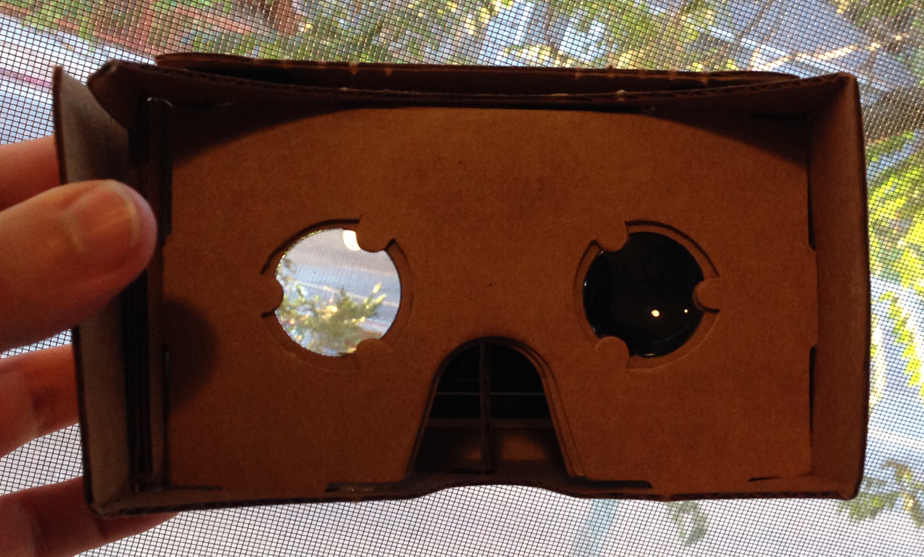 Google Cardboard assembled.